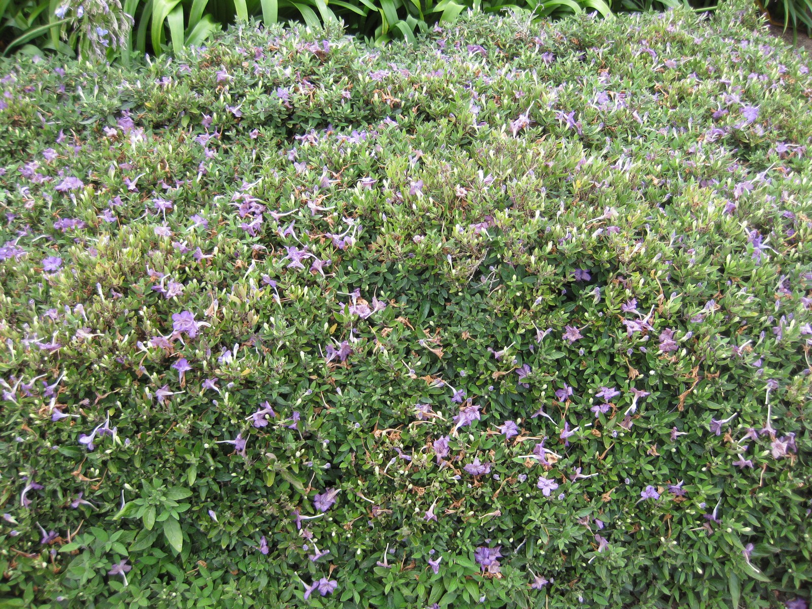 Photographed at the Royal Botanic Gardens Sydney (Australia) in January